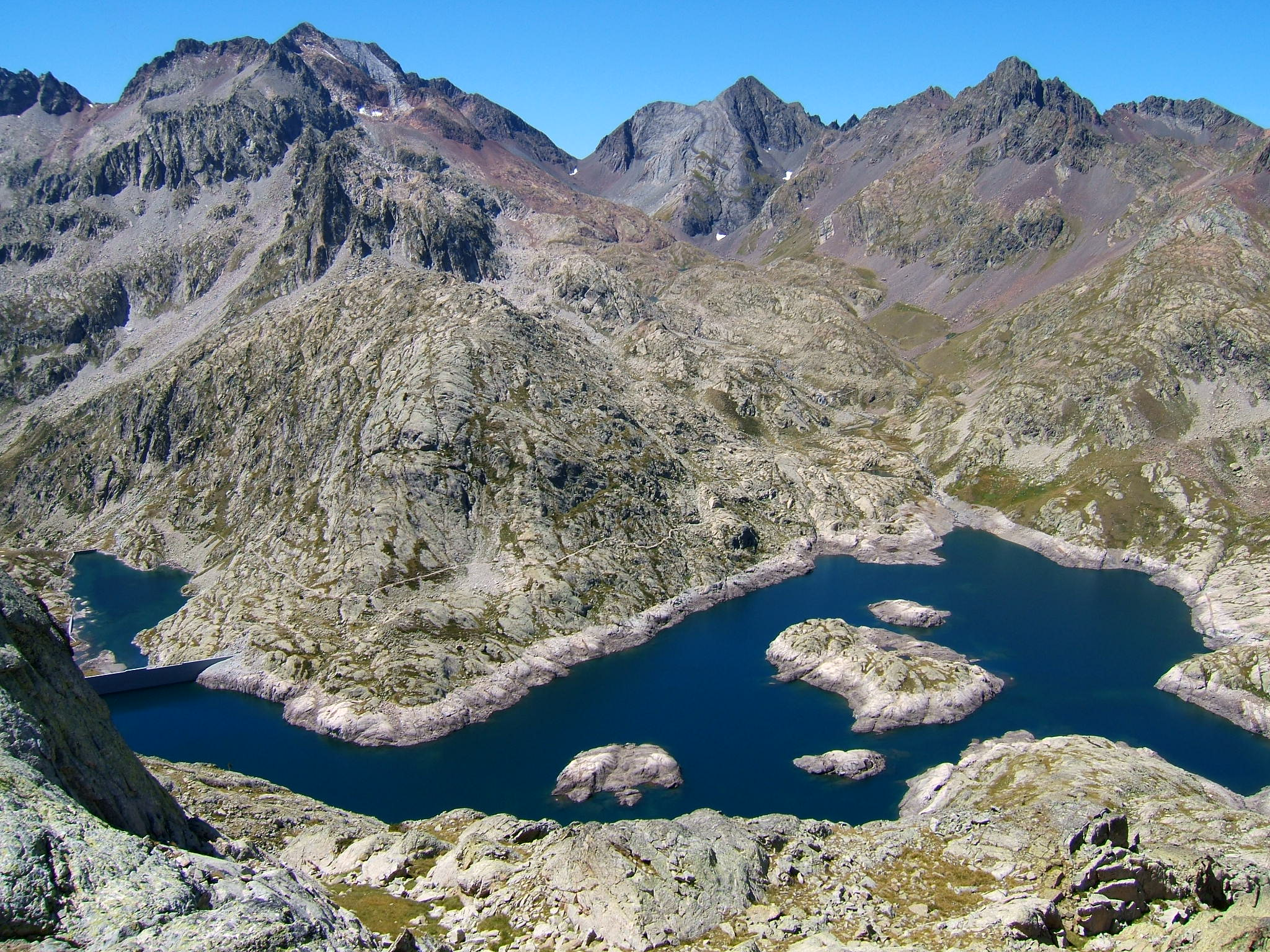 Reservoirs of Bachimaña Alto and Bachimaña Bajo